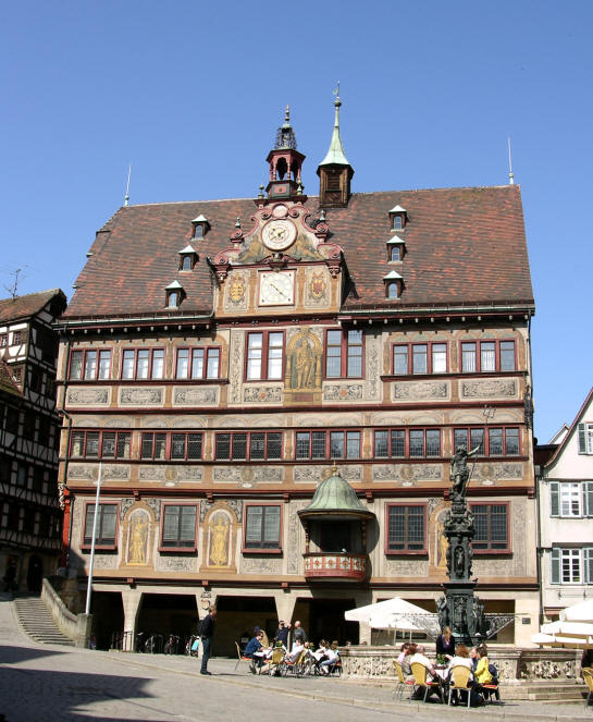 Tübing town hall in Tübingen, Baden-Württemberg, Germany